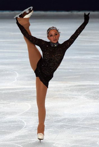 Elene GEDEVANISHVILI at the 2008 Trophée Eric Bompard.